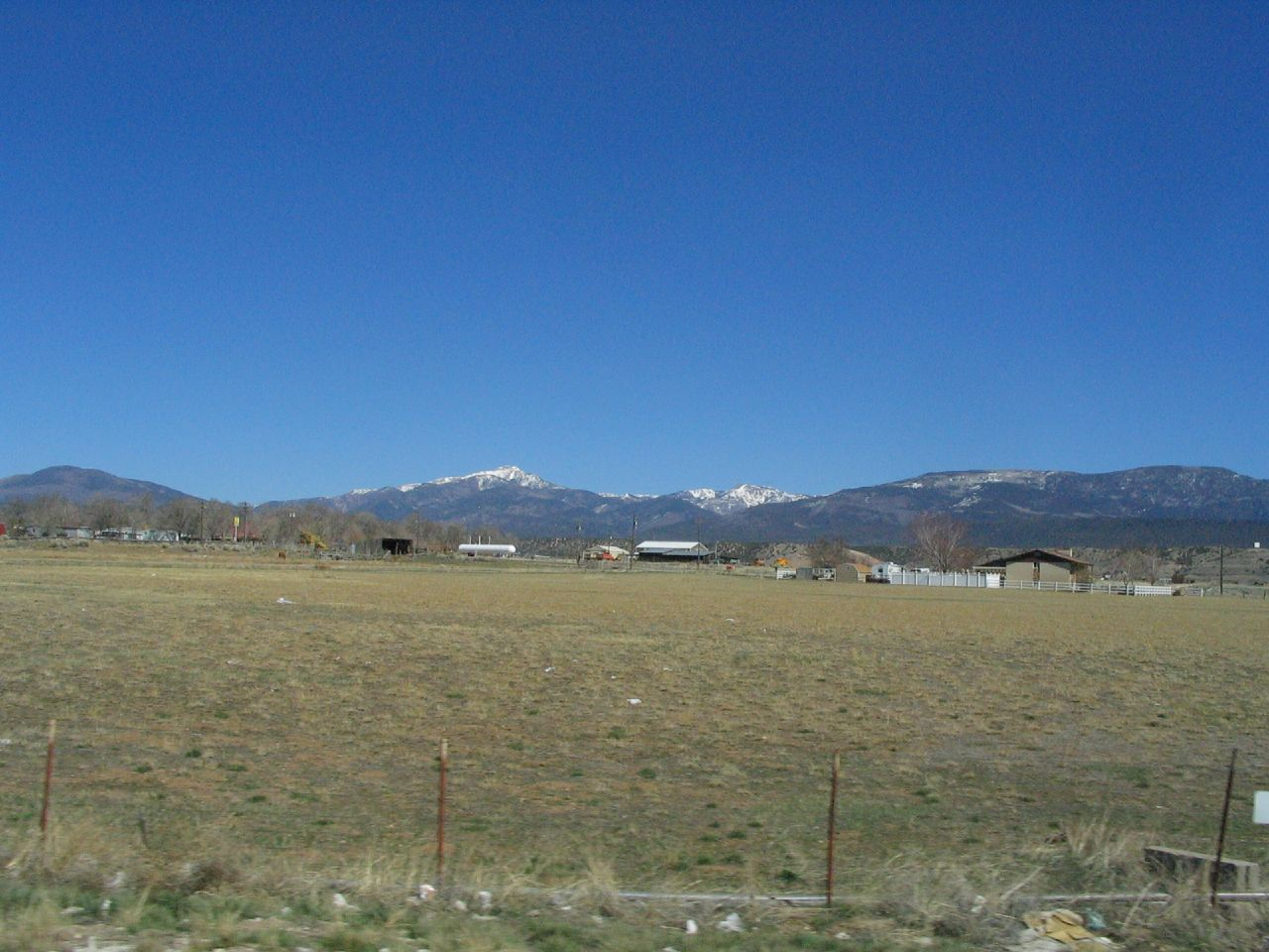 Delano Peak Near Beaver, Utah